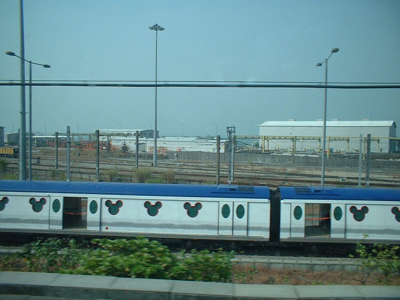 Converted M-Train carriages in preparation for the Disneyland Resort Line. The background shows the Siu Ho Wan train depot.